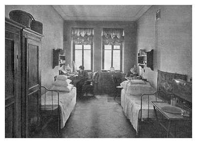 Hostel of Bestuzhev's courses